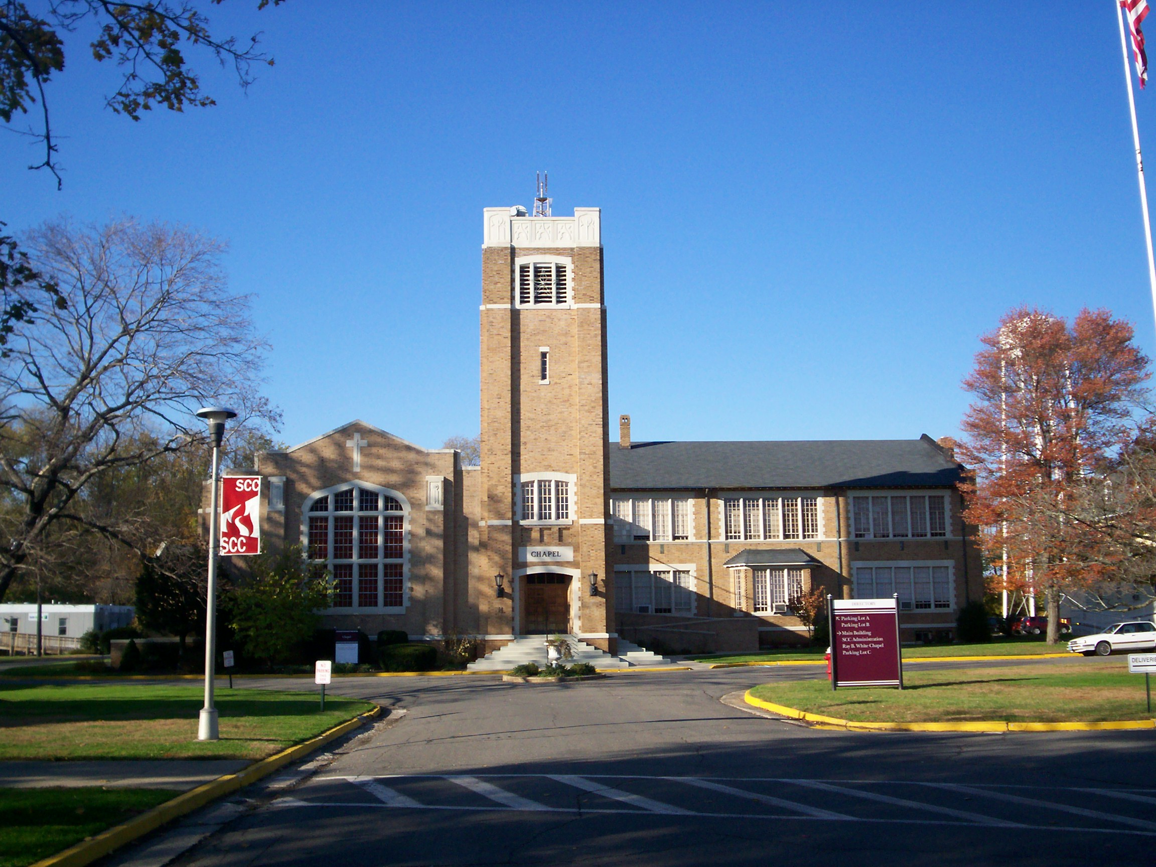 Pillar of Fire Church chapel in Zarephath, New Jersey Source User:Richard Arthur Norton (1958- )